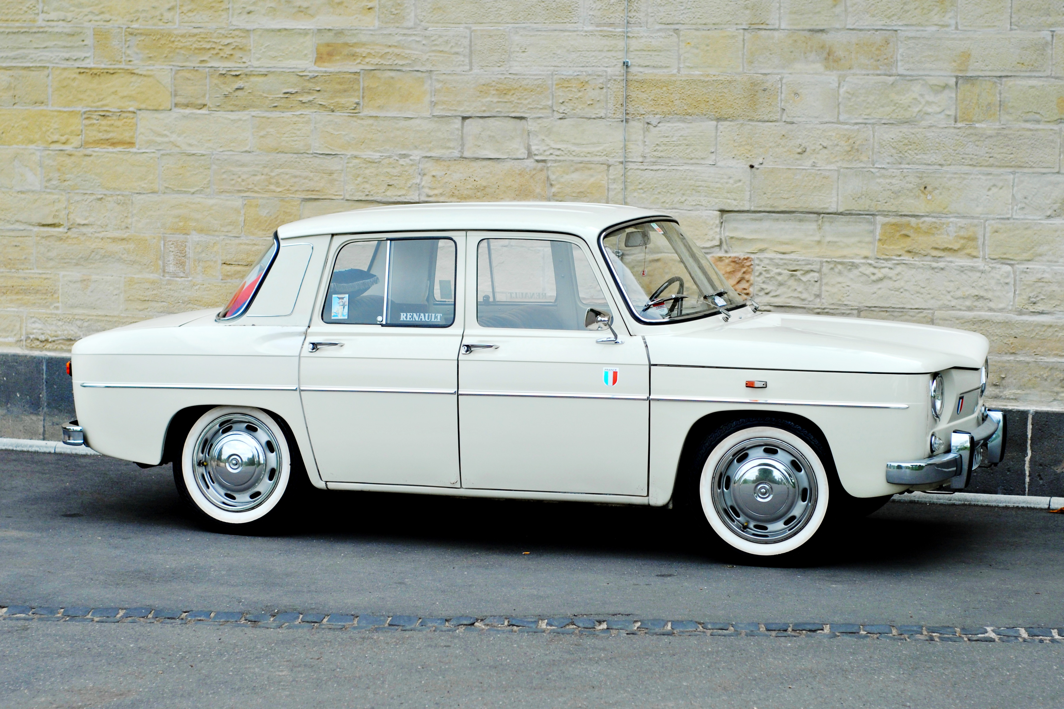 Renault 8